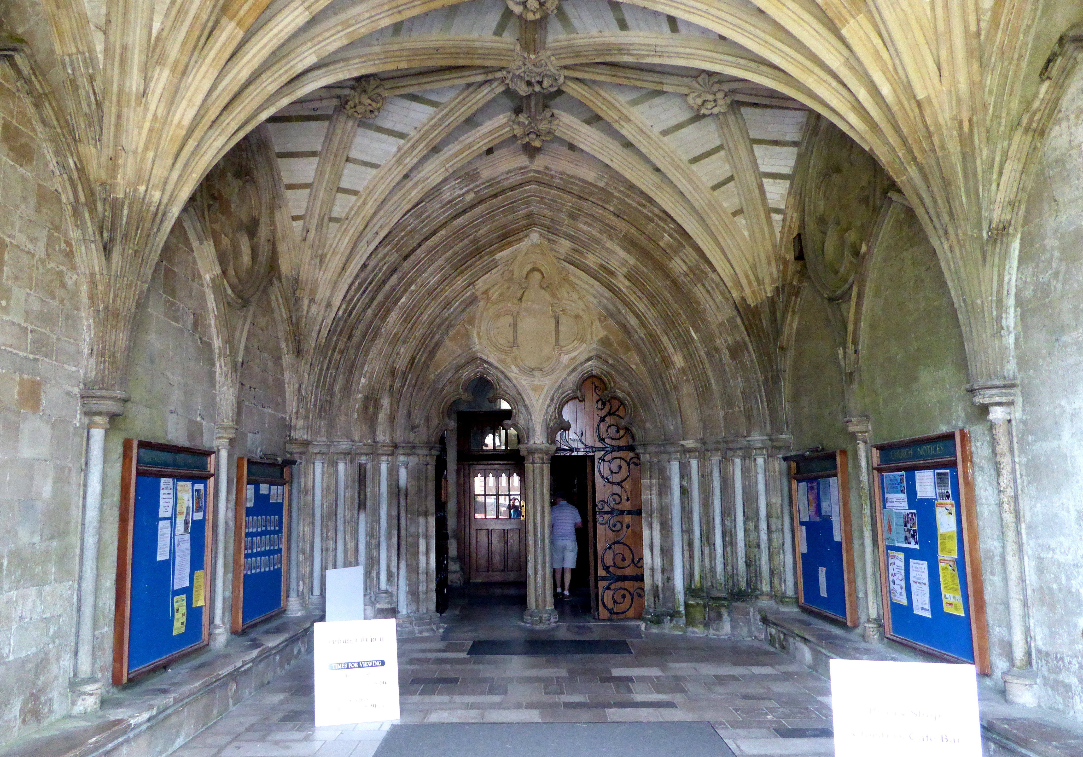 The entrance porch to Christchurch Priory in Dorset.